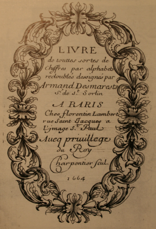 Armand Desmarets de Saint-Sorlin, Livre de touttes sortes de chyfres... 1664.